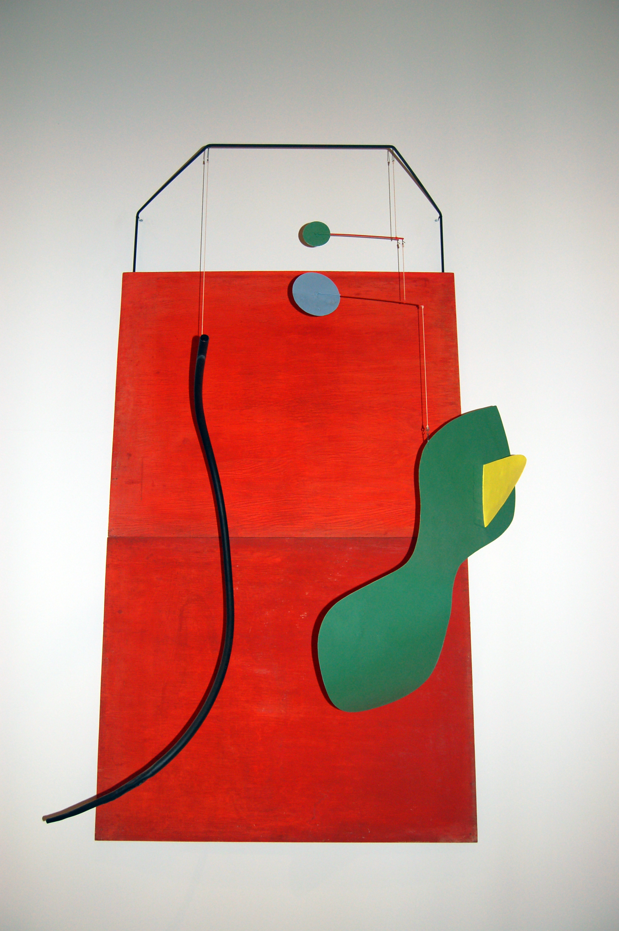 National Gallery of Art - Alexander Calder - Red Panel